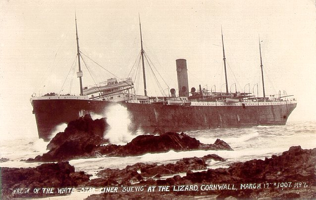 The White Star liner Suevic aground on The Lizard in 1907